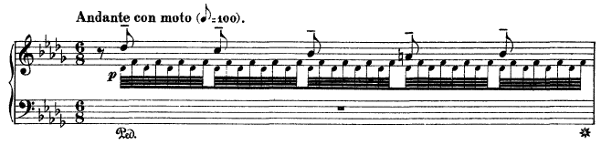 Excerpt from Liszt's Transcendental Etude 12 "Chasse-Neige"